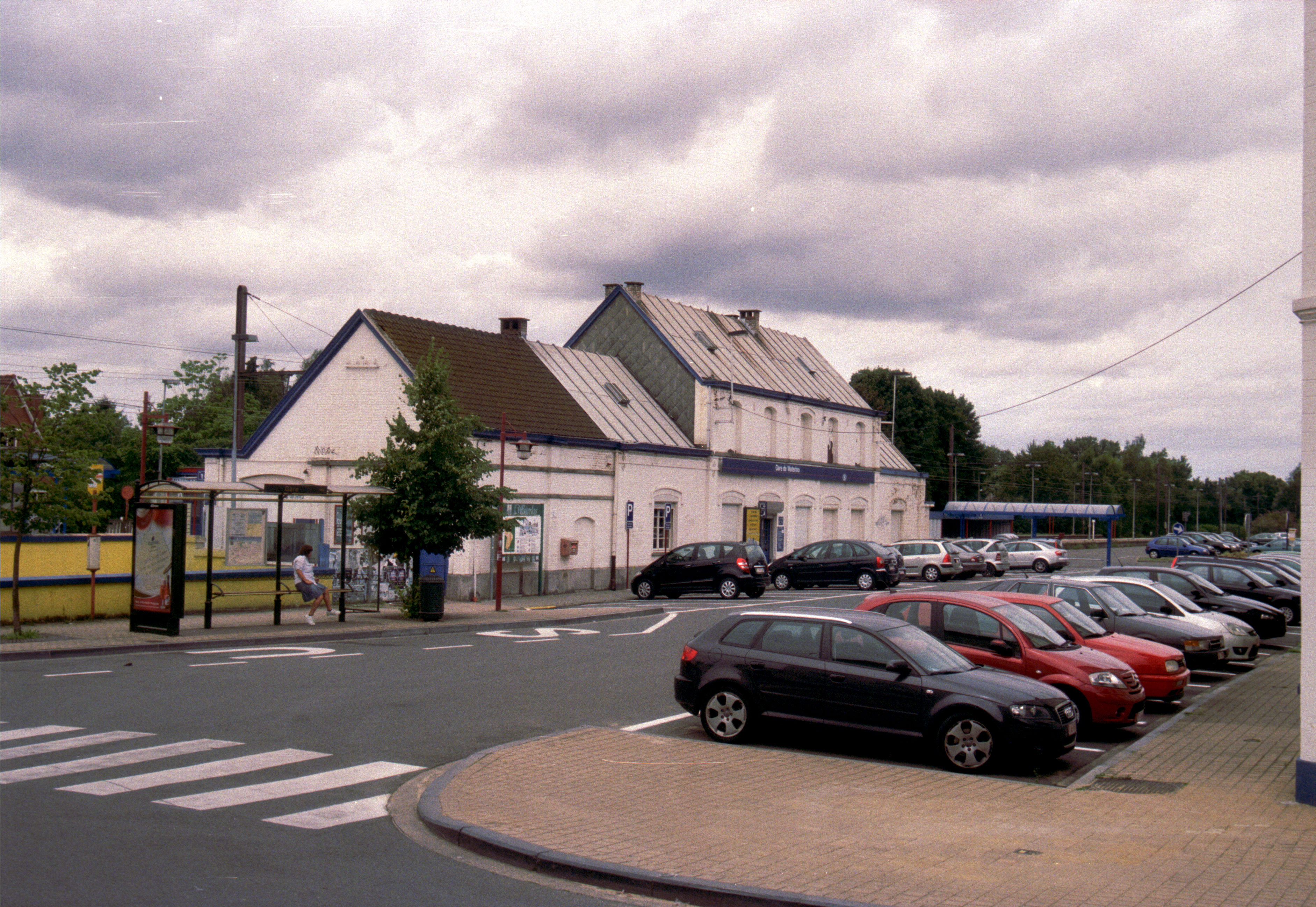 The railway station in Waterloo, Brabant Wallon, Belgium